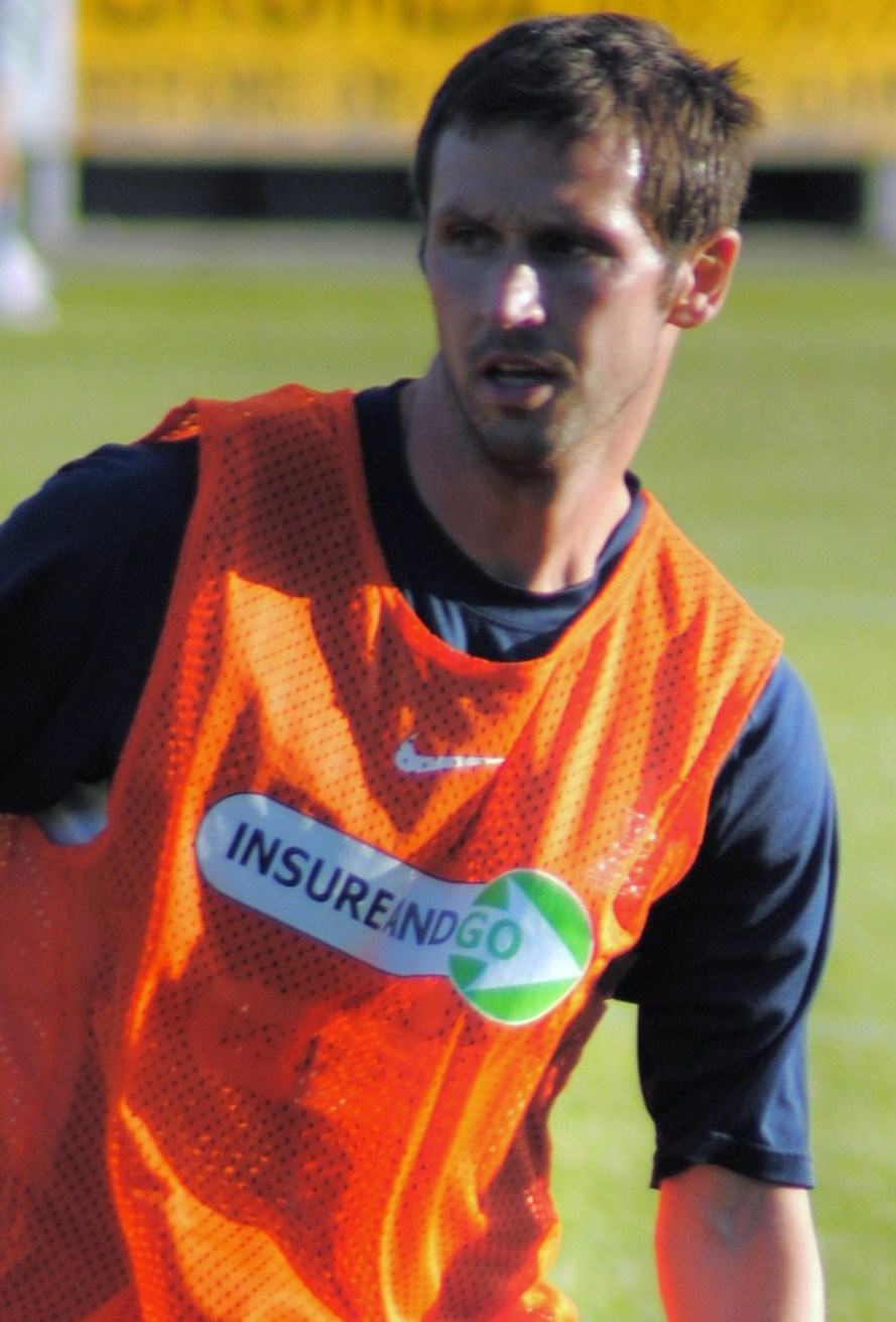 Photo of Southend United captain Craig Easton, taken at a pre-season friendly against Dartford.